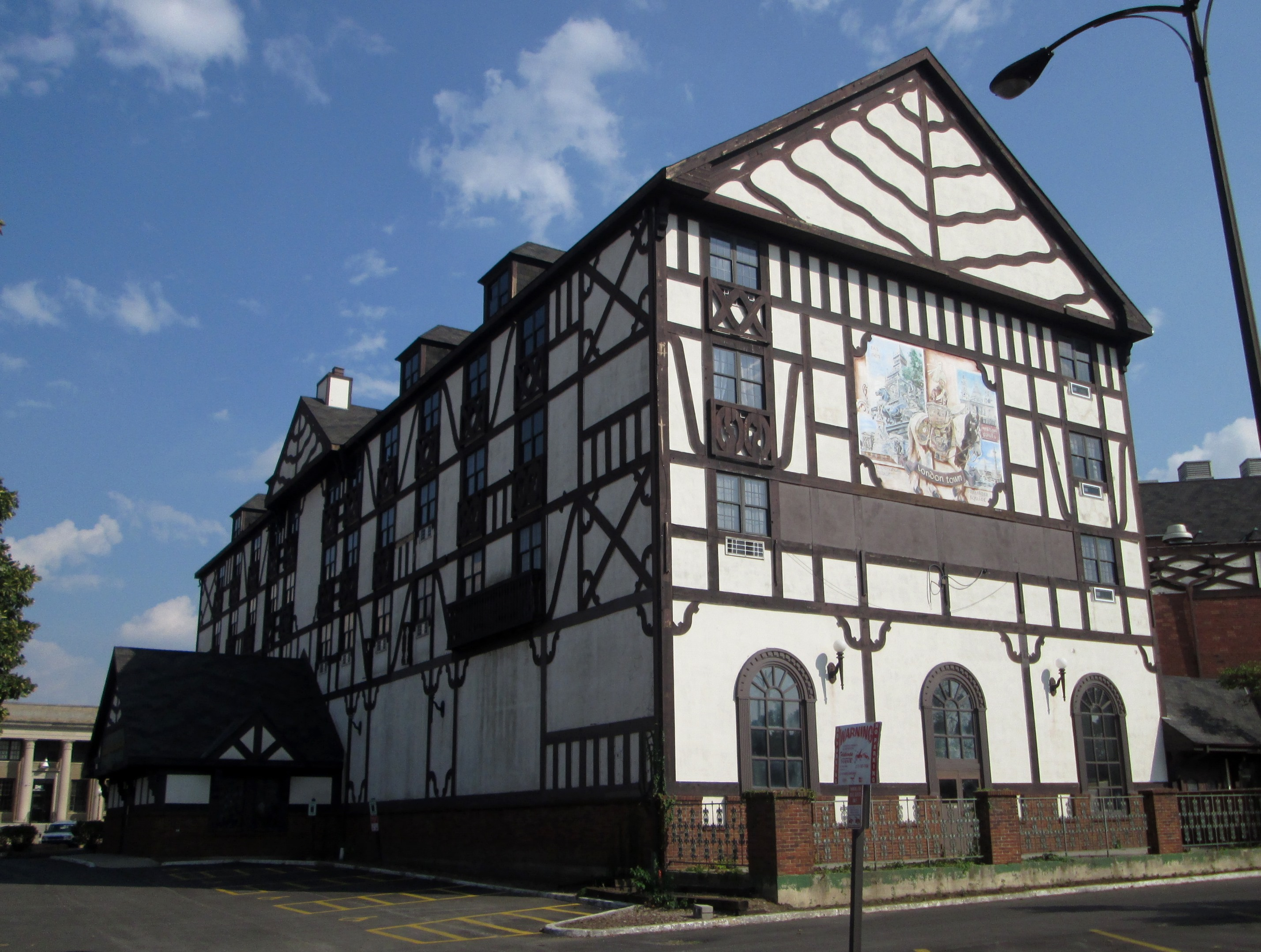 The Lincoln Hotel at 400 Race Street in Urbana, Illinois, now known as the Urbana Landmark Hotel, and formerly known as Jumer’s Castle Lodge and the Historic Lincoln Hotel, was built in 1922-23. It closed in 2010 for renovations and partially re-opened in 2012, with more of the facility scheduled to open in following years. The Lincoln Square Mall, at 201 Lincoln Square, was built in the early 1960s (c.1963-64) around the hotel, and was one of the first fully enclosed malls in the U.S. The hotel and mall together are listed on the NRHP as "Urbana-Lincoln Hotel-Lincoln Square Mall". (Sources: [1], [2], [3], [4] and [5])